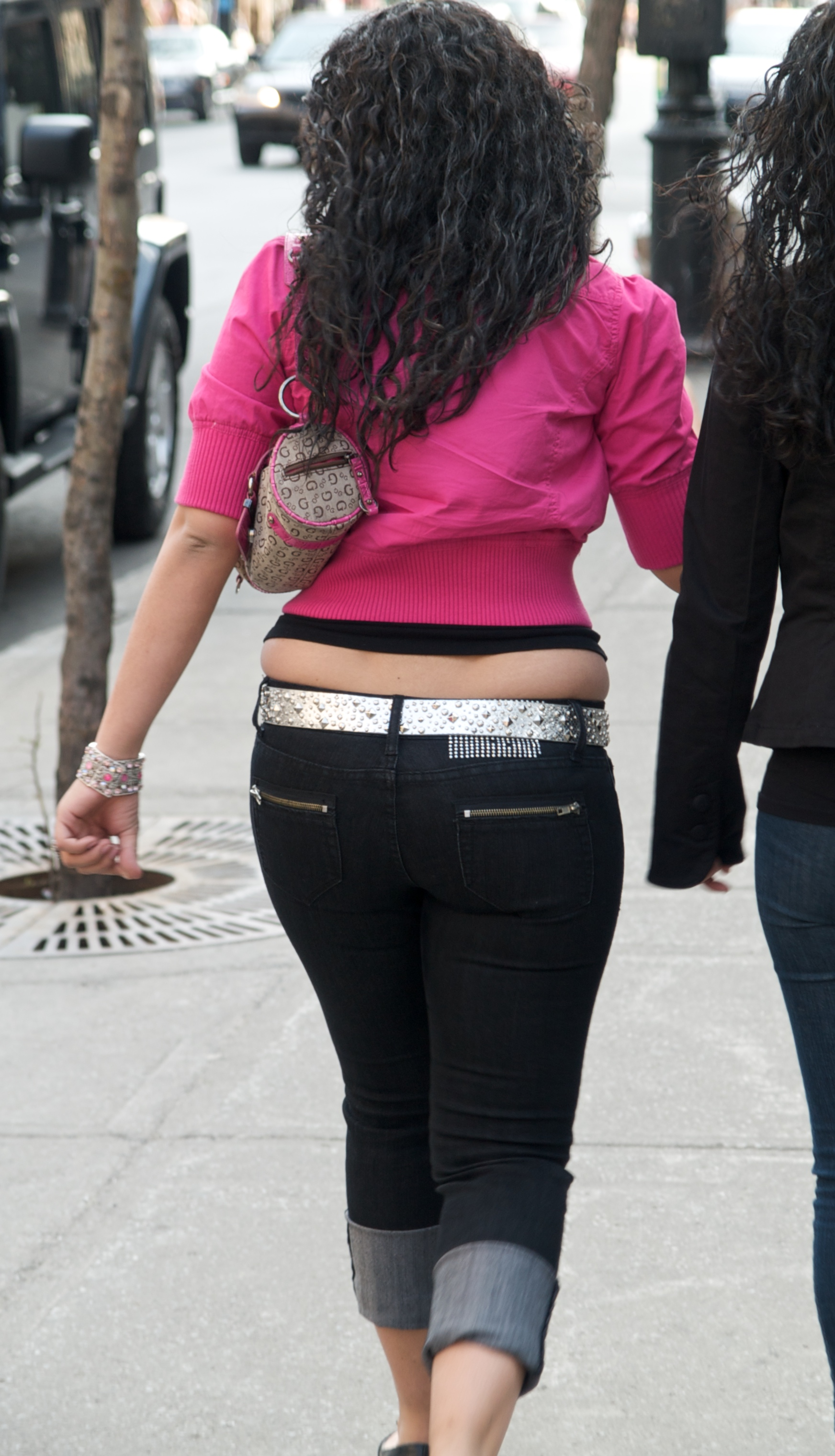 Muffin top